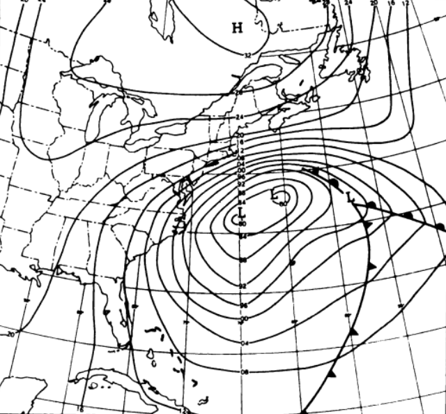 Figure 5 Sea level pressure chart (mb.) at 1200 GMT March 7, 1962